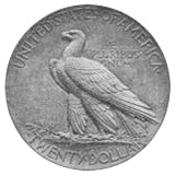 Model of early design for reverse of $20 gold piece by Augustus Saint-Gaudens